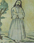 Source URL